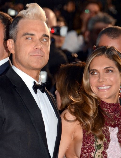 Robbie Williams at the Cannes film festival, together with wife Ayda